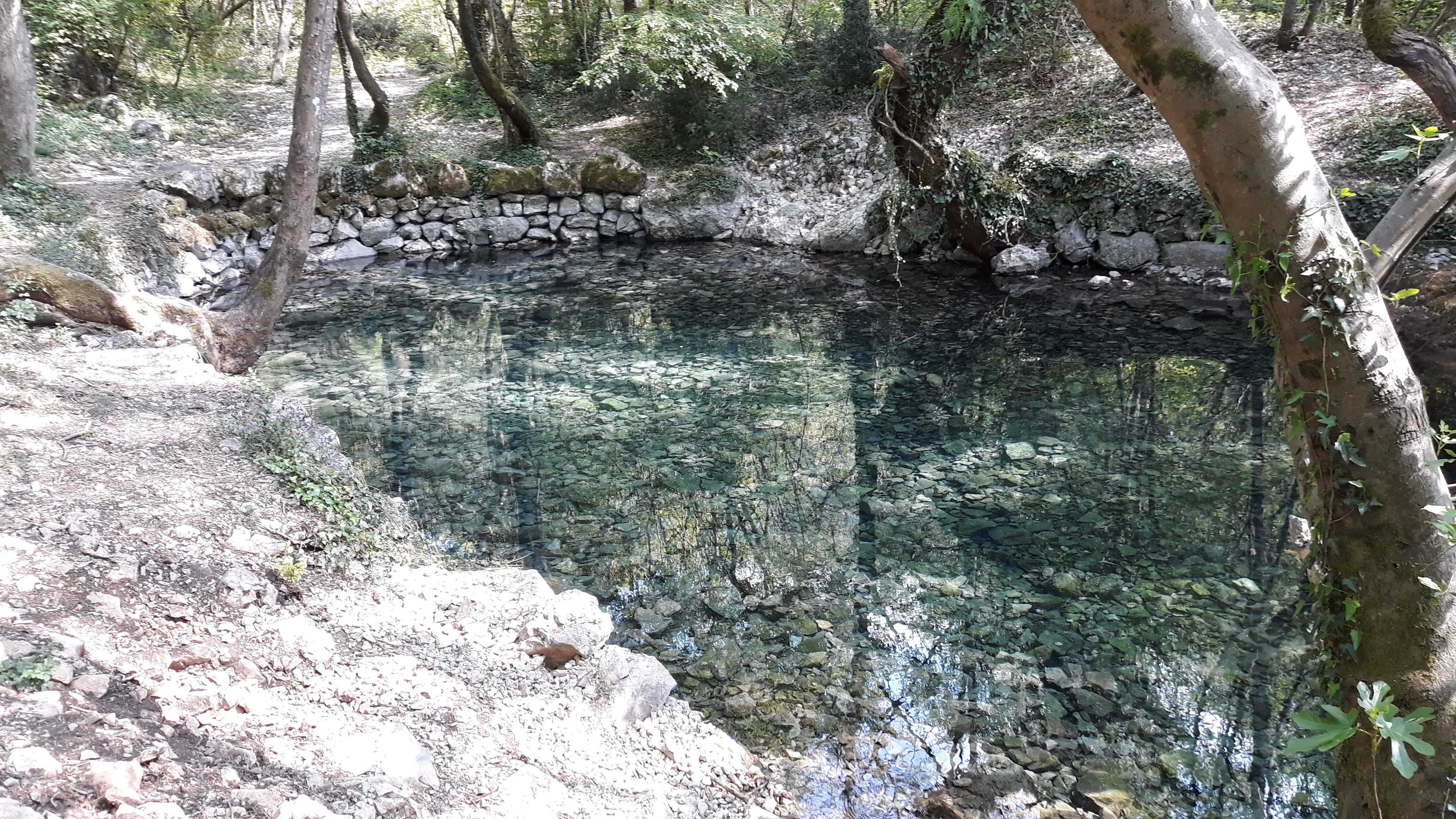 Grab River, Croatia